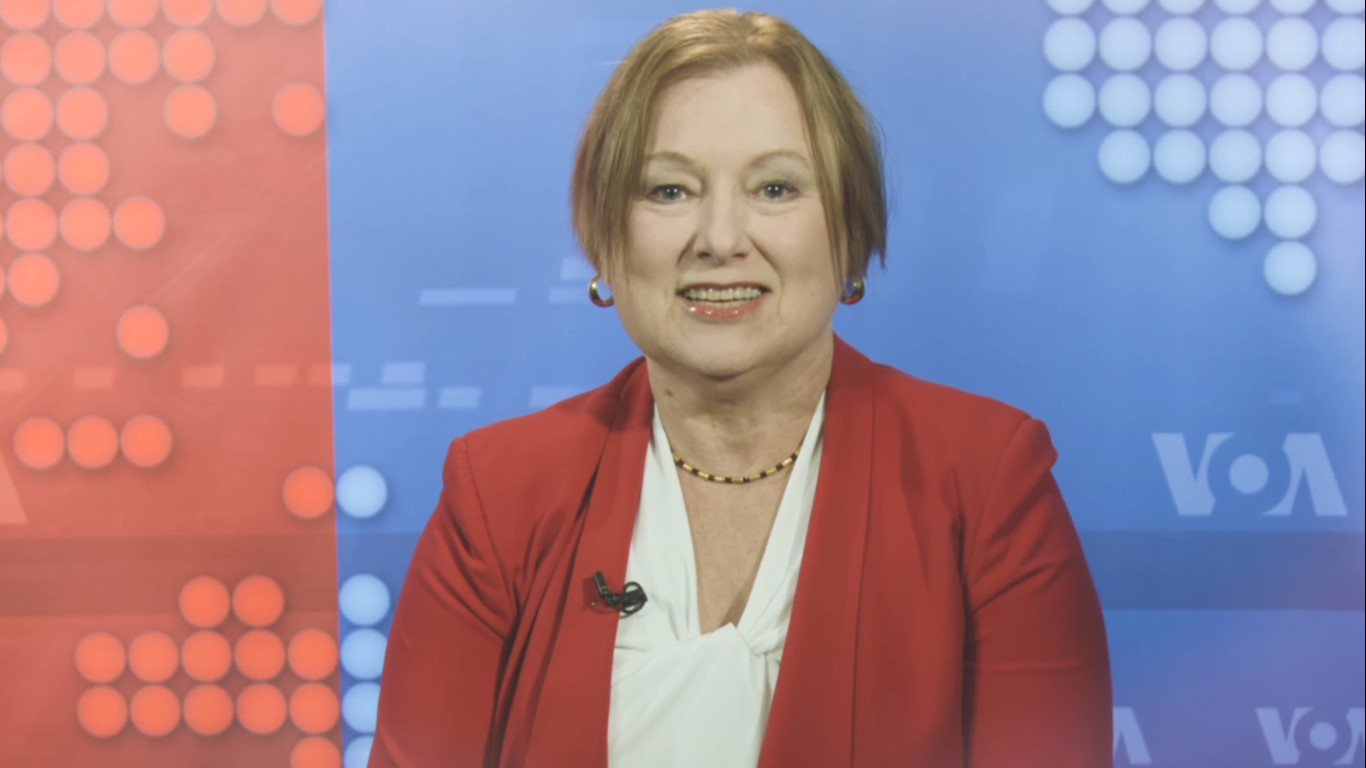 VOA Director Amanda Bennett. April 27, 2017